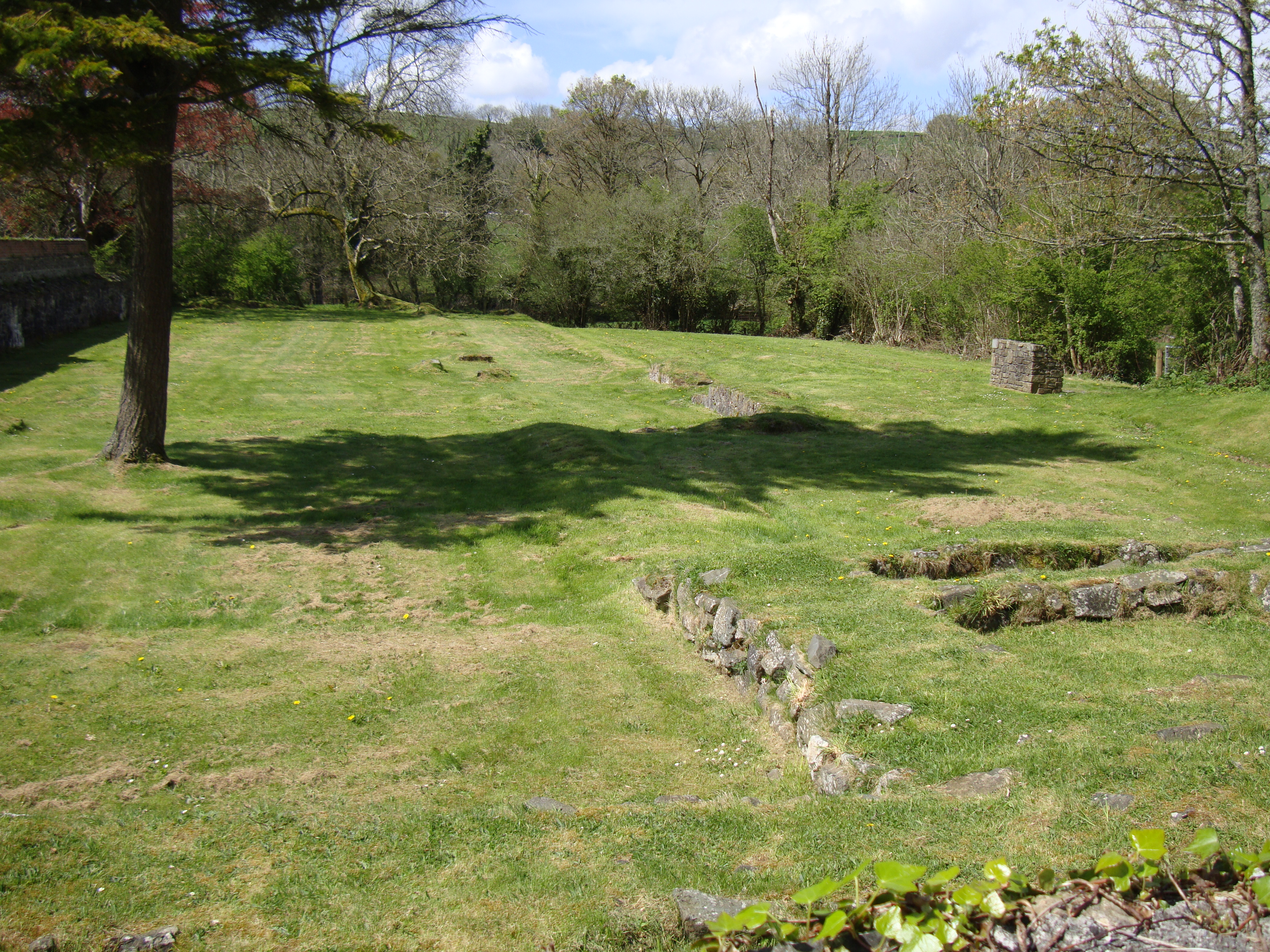 Photograph of Whitland Abbey, Carmarthenshire, Wales